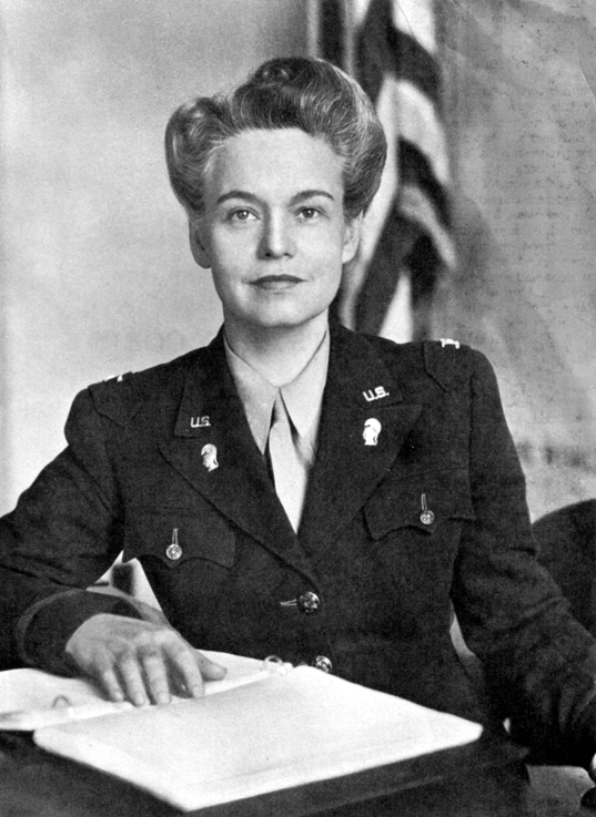 Oveta Culp Hobby, first director of the Women's Army Corps, in Uniform, circa 1942